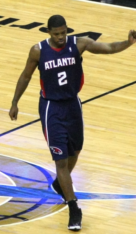 Atlanta Hawks vs Washington Wizards, 2008-09 Regular Season.